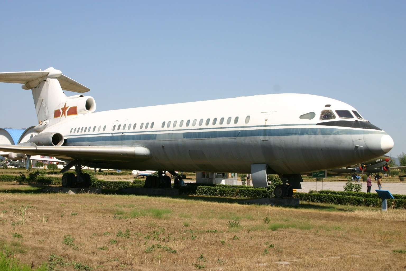 At Beijing Xiaotangshanzhen Aviation Museum